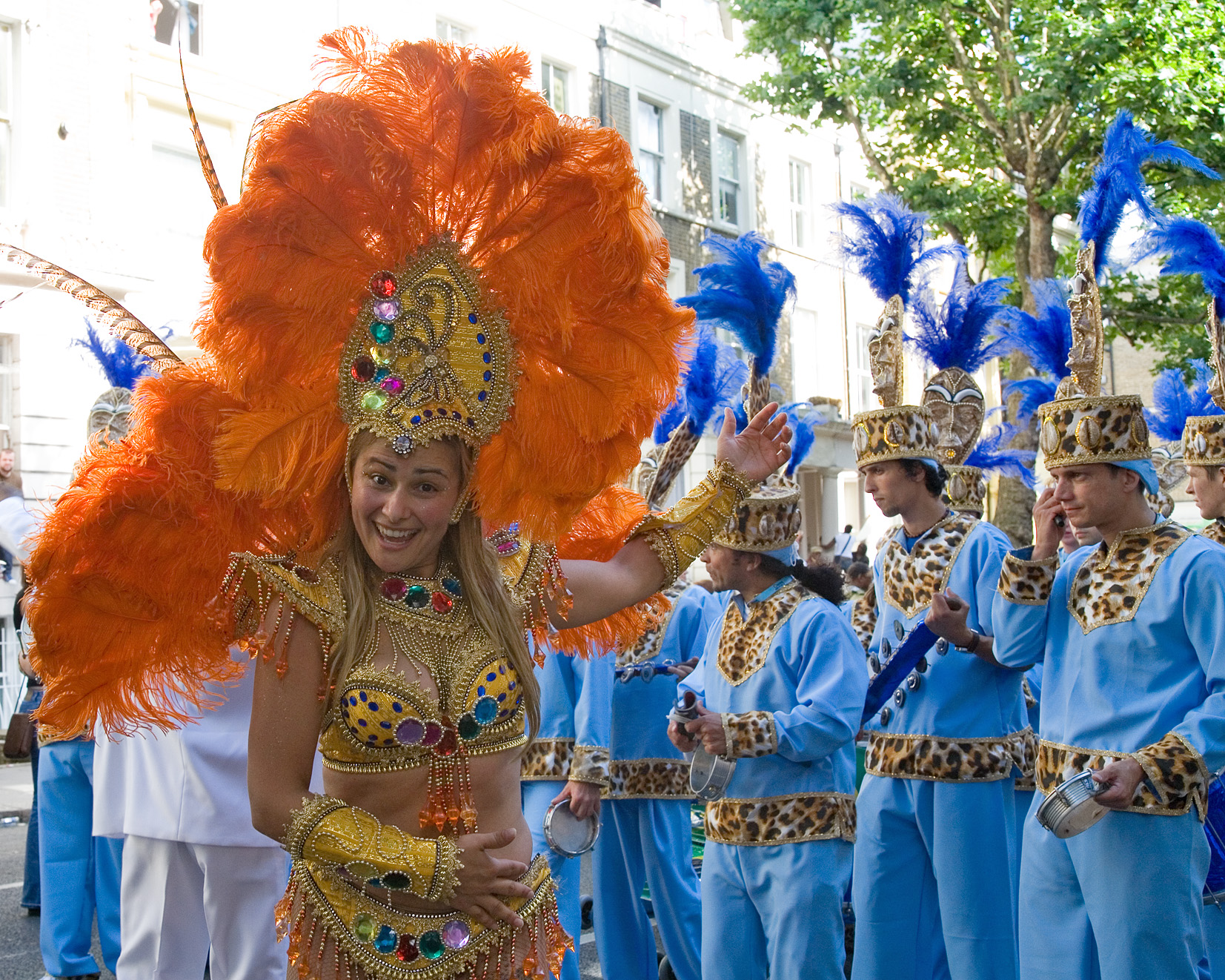 Notting Hill Carnival 2006 (London)